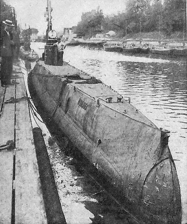 Danish submarine "Havmanden". During a patrol on 19th of October 1914 it was fired upon by an unknown foreign submarine. The Danish sub narrowly escaped being hit by two torpedoes.